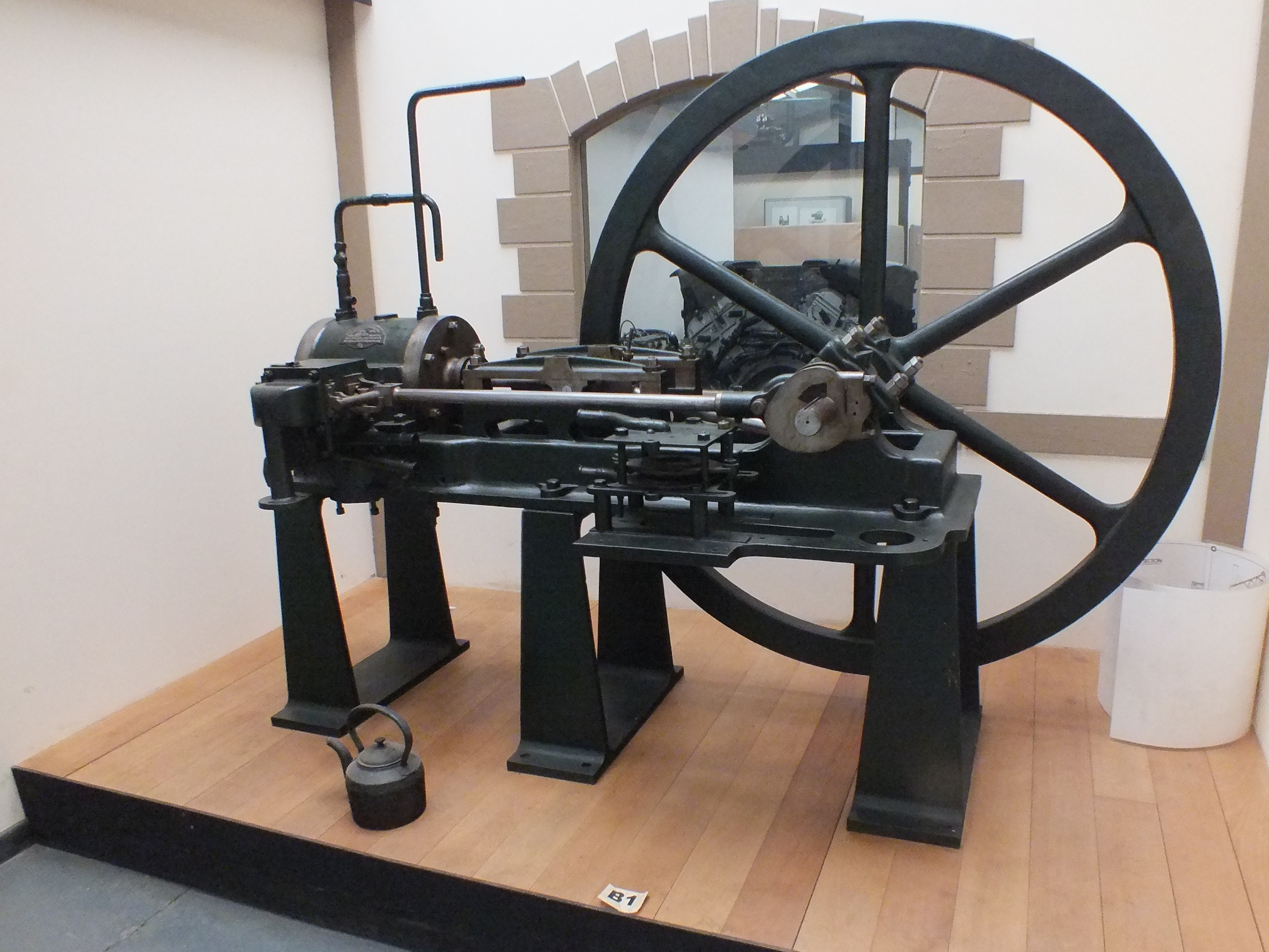 The Anson Engine Museum in Poynton, Cheshire collection. Hugon Gas Engine 1867